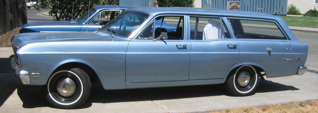 Side view, 1969 Ford Falcon station wagon. Not a factory color. Taken by me.